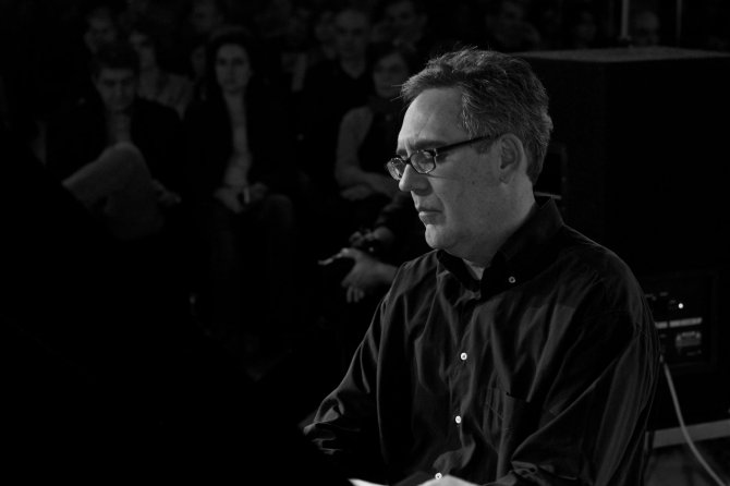 Massimo Colombo in concerto nel 2014